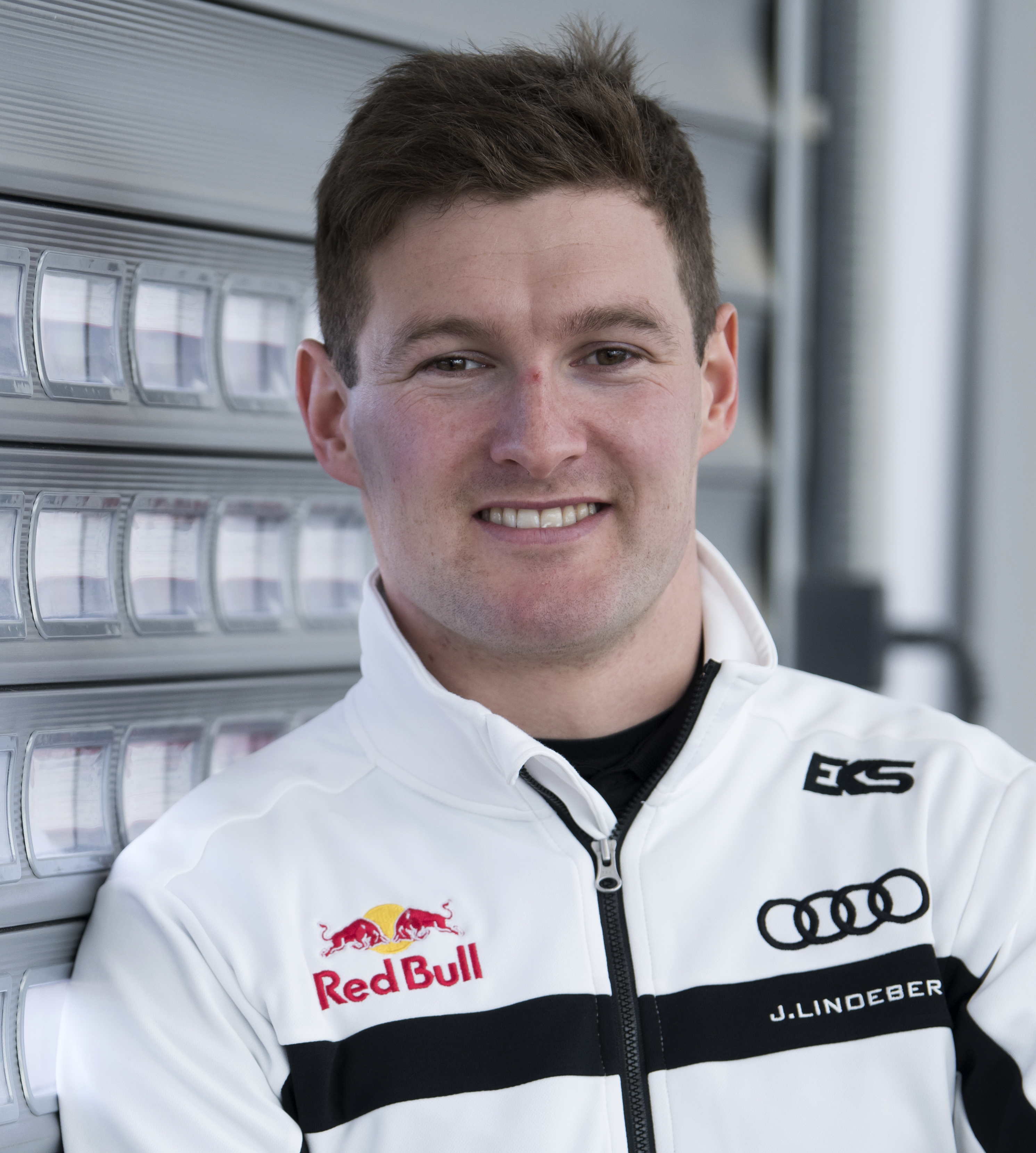 2018 FIA World Rallycross Championship // 2018 Livery // Credit: EKS/Jaanus Ree